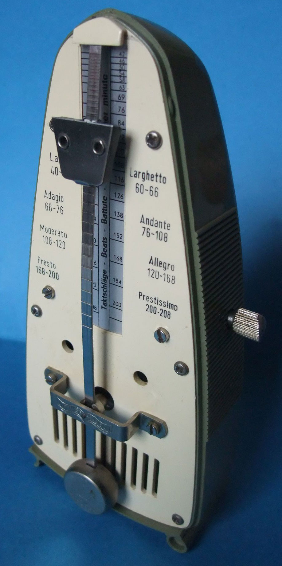 A small mechanical metronome by the German maker Taktell